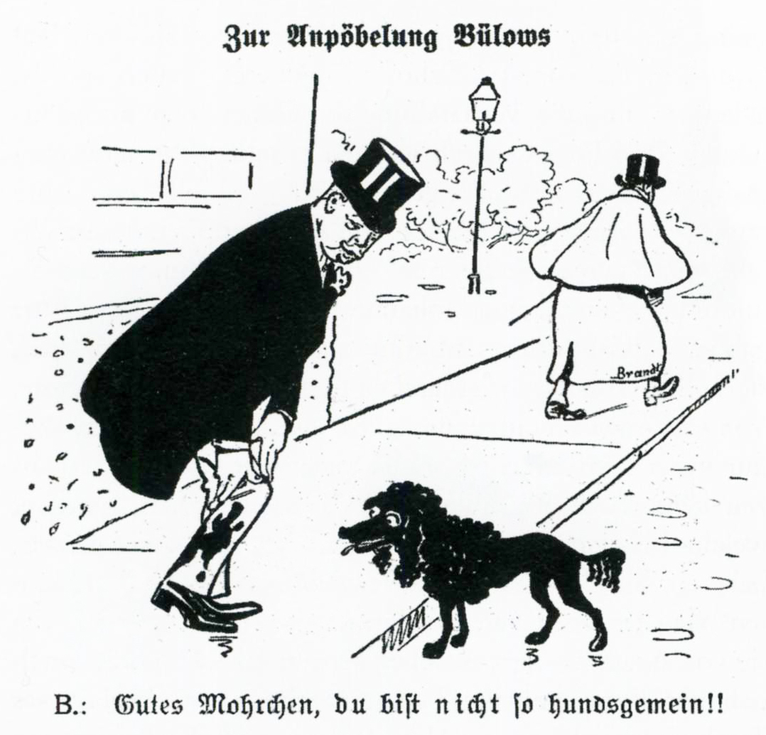 Political cartoon from the humorous weekly Kladderadatsch (Berlin), vol. 60, no. 43 (27 October 1907), p. 170:"On the maligning of Bülow" "B.: Good Mohrchen, you would never be such a bad dog!" The cartoon turns on the German idiom "jemandem ans Bein pinkeln" (literally: to piss on someone's leg), which means to offend someone through unwarranted and disrespectful criticism. Bülow's pants leg has been soiled not by his poodle Mohrchen (a pet familiar to the German public of that era), but by Adolf Brand, who is thereby named a dog or a cur.